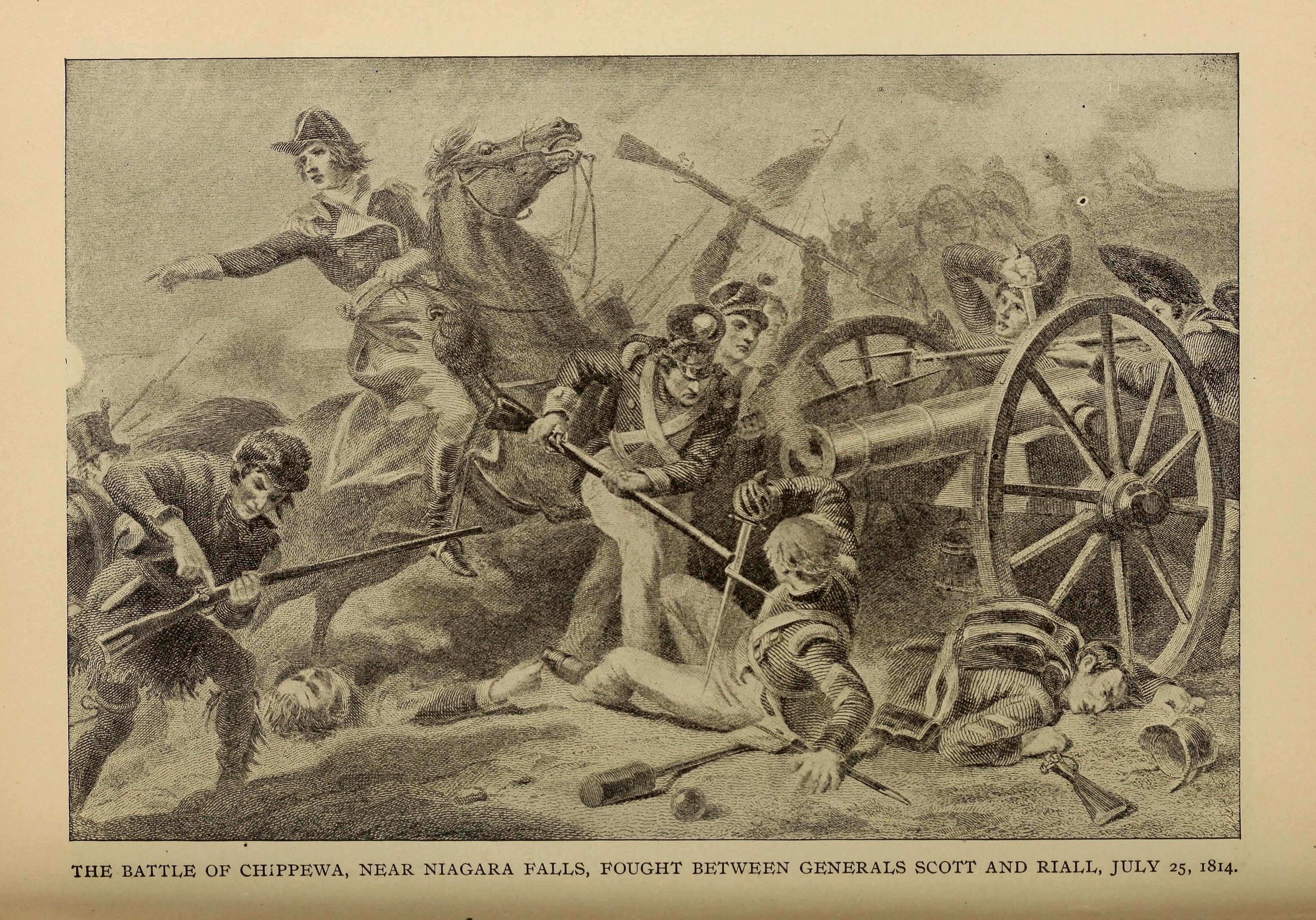 Title: Hero tales of the American soldier and sailor as told by the heroes themselves and their comrades; the unwritten history of American chivalry Year: 1899 (1890s) Authors: Buel, James W. (James William), 1849-1920 Subjects: Spanish-American War, 1898 Publisher: Philadelphia, Pa., Century manufacturing company Text Appearing Before Image: ' Text Appearing After Image: '